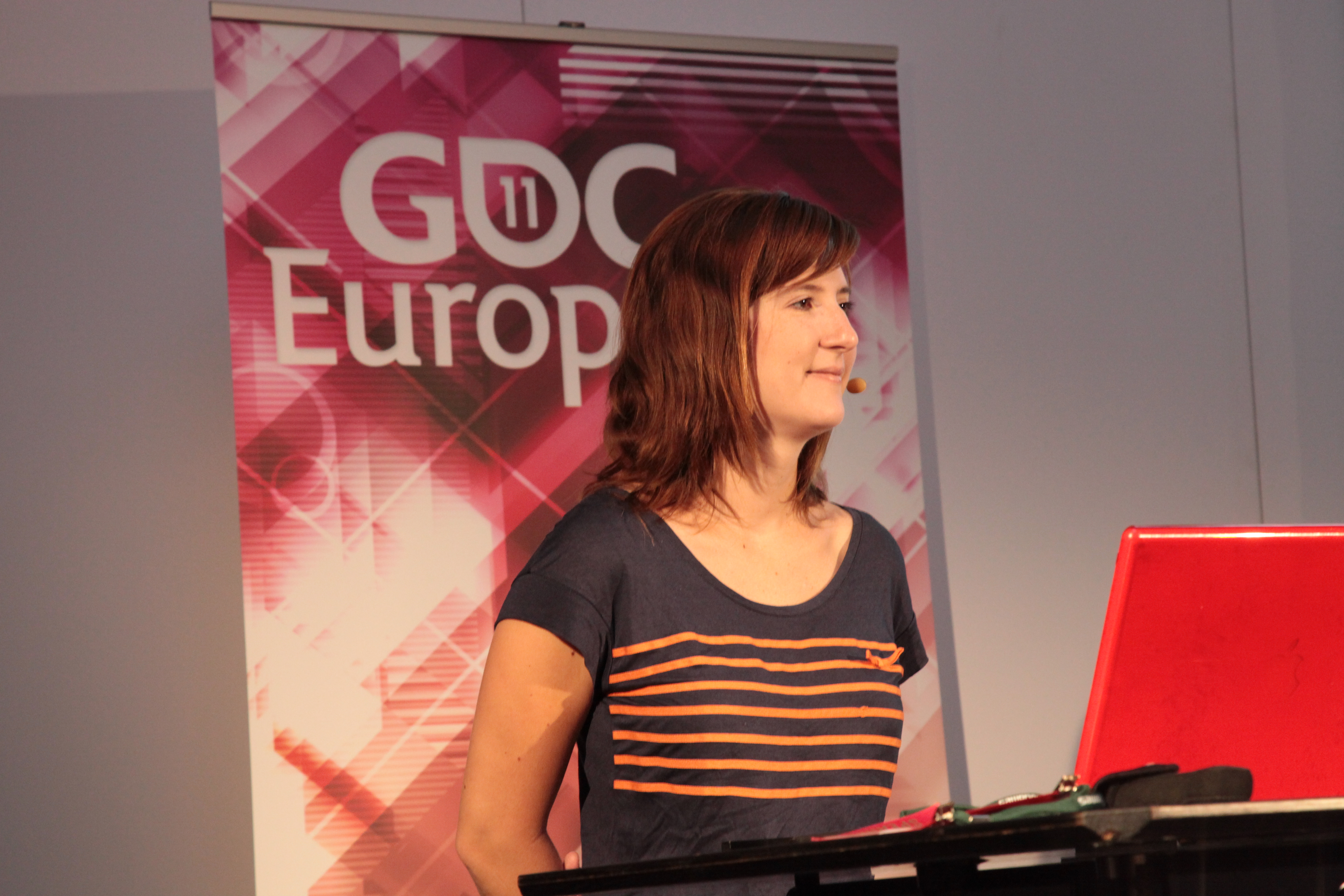 Kellee Santiago at the Game Developers Conference Europe 2011